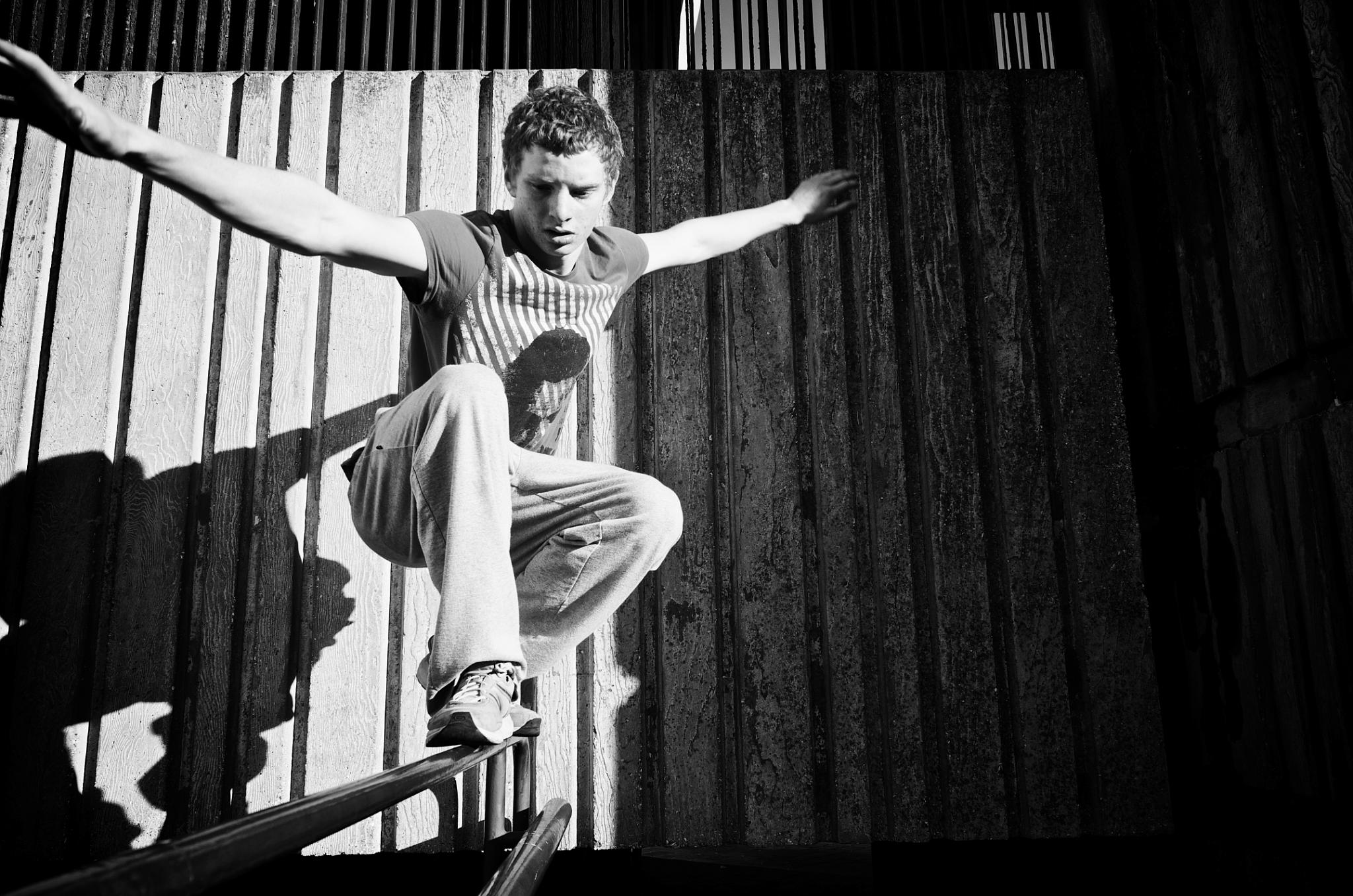 Parkour Foundation Winter